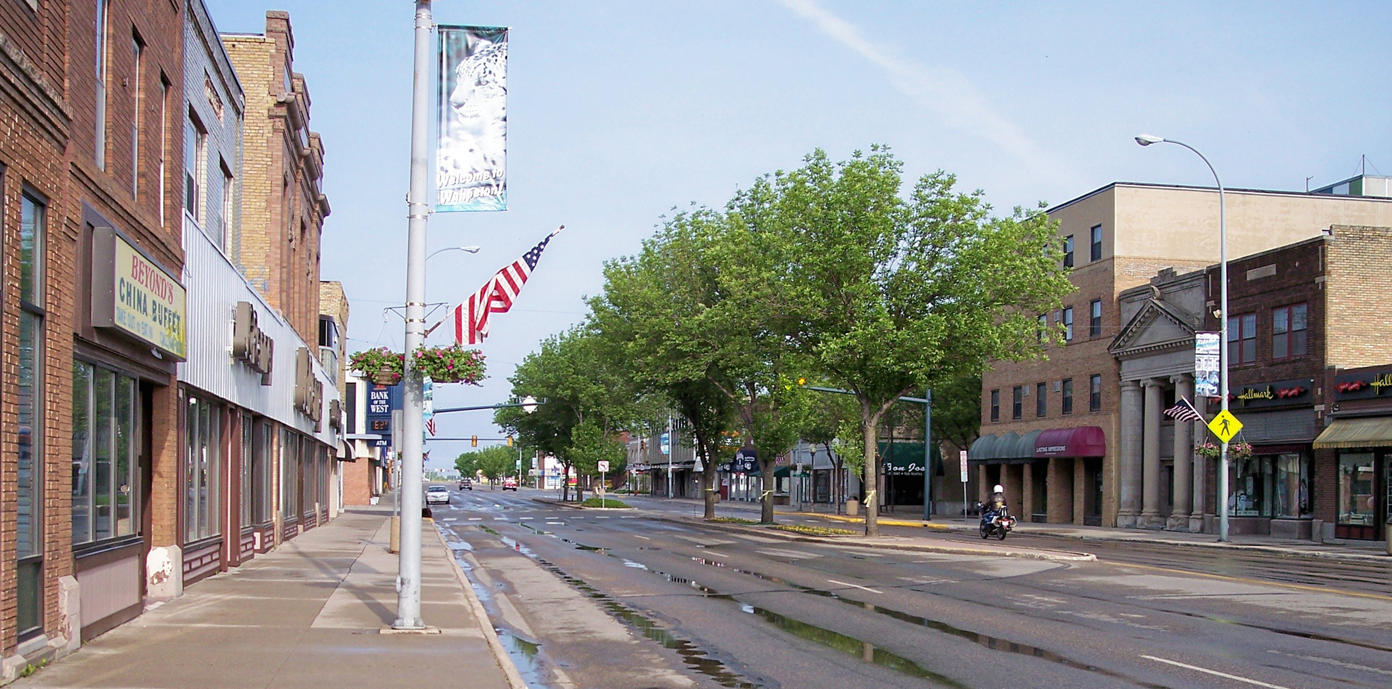 Dakota Avenue (North Dakota Highway 13) in downtown Wahpeton, North Dakota